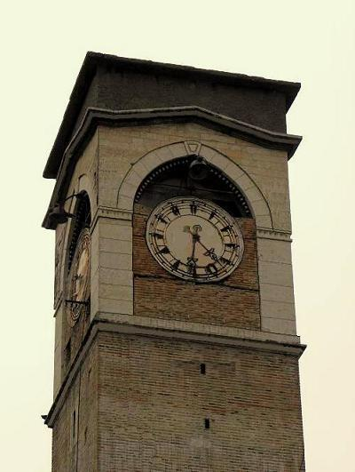 Clock Tower Adana